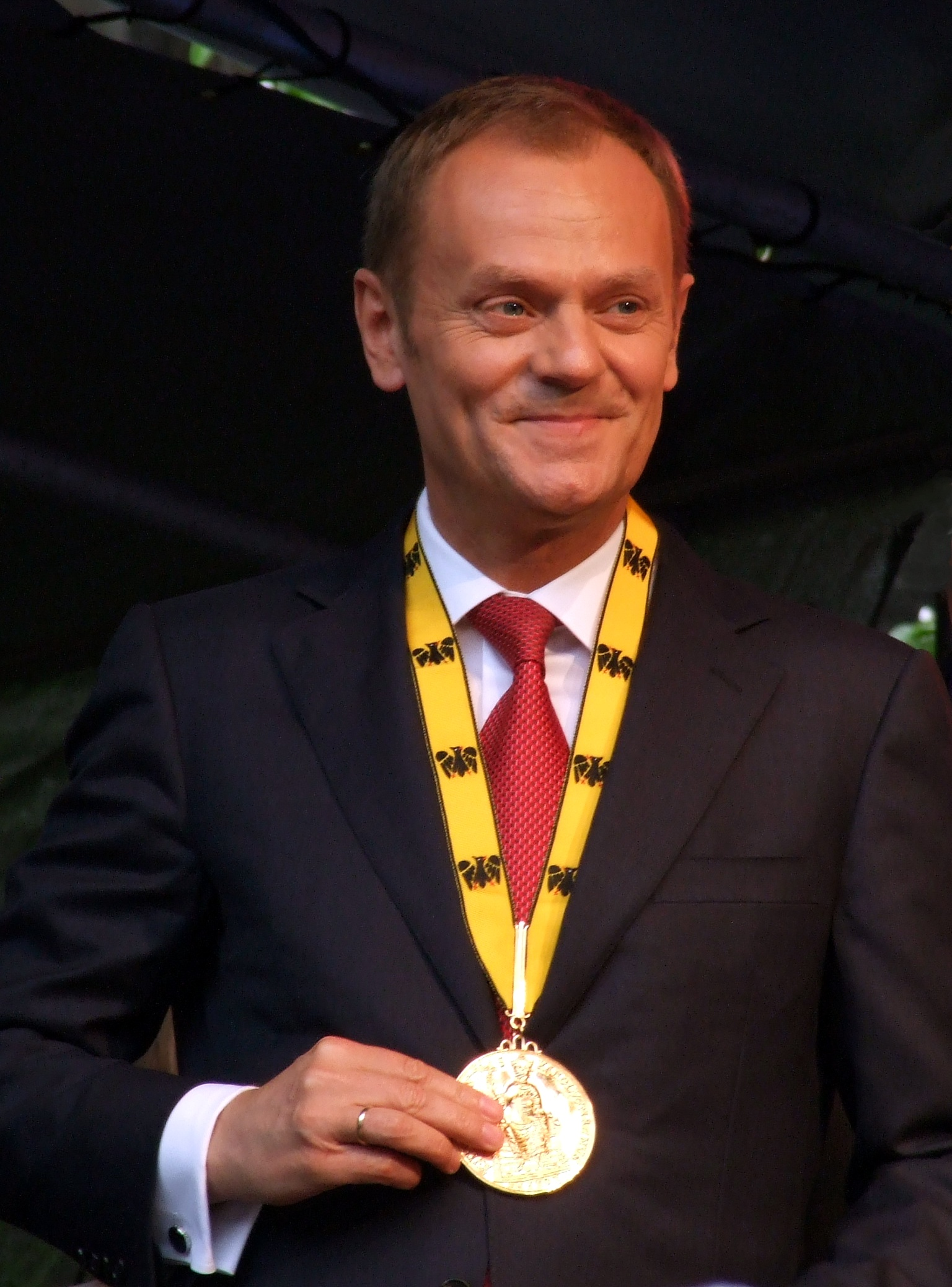 Donald Tusk at the Karlspreis-award 2010